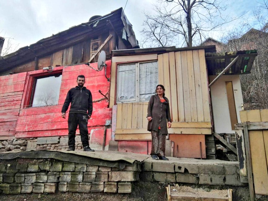 BiH Roma settlement Zavidovici, self-built home of Jasmin O. and his family